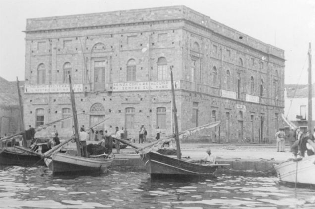 Old photography of the East and North facade of Palazzo Cavallera in Carloforte, Sardinia